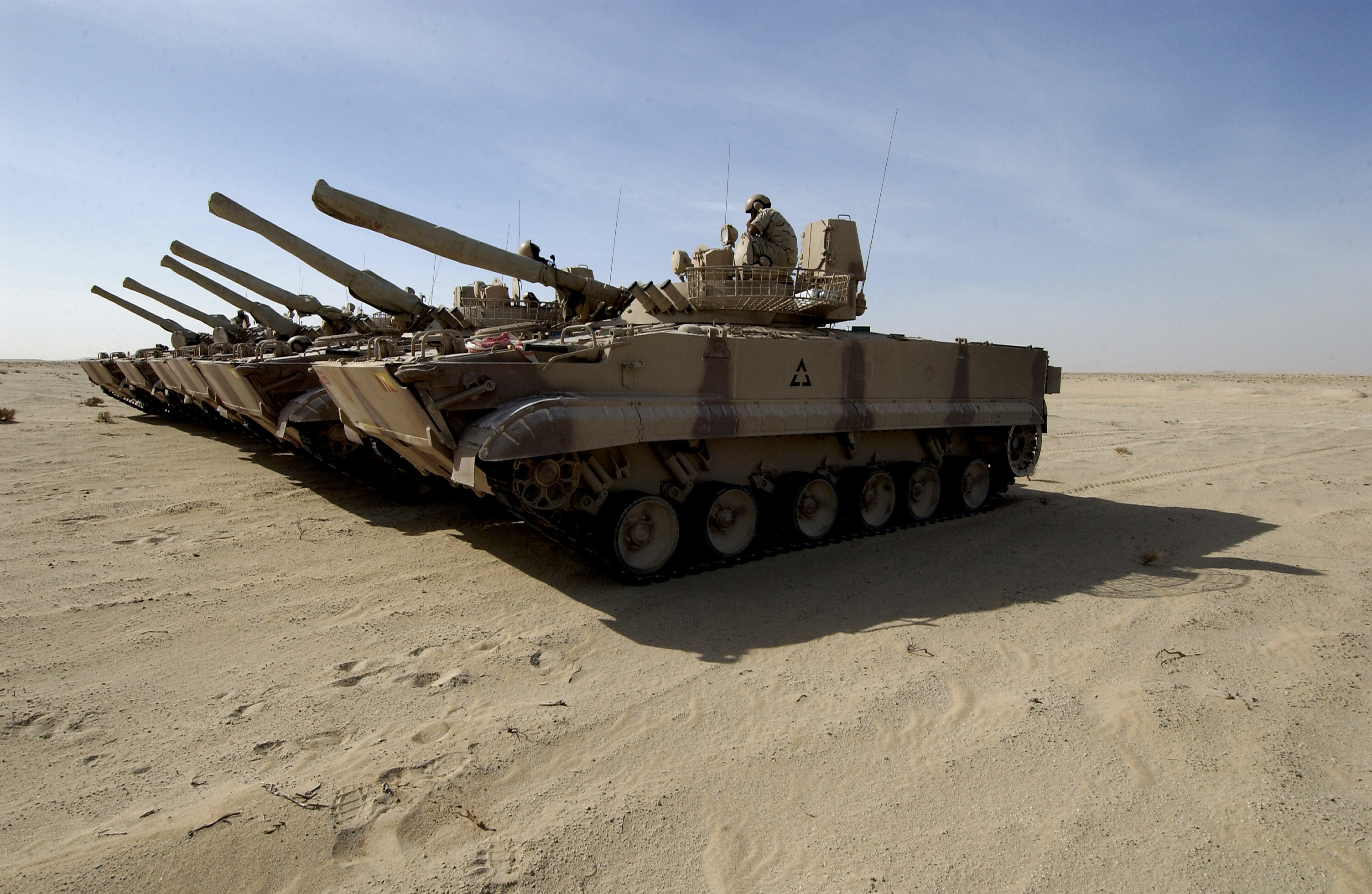 Marines from the 13th Marine Expeditionary Unit (13th MEU) 1st Light Armor Reconnaissance Battalion Landing Team (1st LAR BLT 1/1) stationed at 29 palms, Calif., conduct live fire desert training with the U.A.E. military, Dec. 14, 2003. The U.A.E. military is using the Soviet made BMP tank. The training is being conducted by Marines and Sailors supporting Expeditionary Strike Group 1 (ESG 1). ESG 1 is an example of the Navy and Marine Corps' commitment to the Secretary of Defense's vision to transform the U.S. Armed Forces for the 21st Century. ESG's are designed to enable the United States to conduct shaping operations in the Global War on Terrorism. ESG 1 is currently deployed to the Commander, U.S. Fifth Fleet Area of Responsibility in support of Operations Enduring Freedom and Iraqi Freedom.